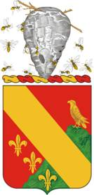 113TH FIELD ARTILLERY REGIMENT Description/Blazon Shield Gules, a falcon Or on a mount issuant from sinister base Vert, overall a bend and in dexter base three fleurs-de-lis in bend of the second. Crest That for the regiments and separate battalions of the North Carolina Army National Guard: On a wreath of the colors, Or and Gules, a hornet's nest hanging from a bough beset with thirteen hornets all Proper. Motto CARRY ON. Symbolism Shield The shield is red for Artillery. The 113th Field Artillery, North Carolina National Guard, was attached to the 79th Division and engaged in the action of that division which resulted in the capture of Montfaucon, September 27, 1918, which is illustrated by the falcon on a mount, taken from the coat of arms of Montfaucon. The bend is taken from the arms of Lorraine. The mount and bend represent the remaining three engagements during World War I. The three fleurs-de-lis also represent the battle honors of the organization. Crest The crest is that of the North Carolina Army National Guard. Background The coat of arms was originally approved for the 113th Field Artillery Regiment on 24 February 1931. It was redesignated for the 113th Field Artillery Battalion on 29 July 1942. It was redesignated for the 113th Artillery Regiment on 27 May 1960. The insignia was redesignated for the 113th Field Artillery Regiment on 1 August 1972.